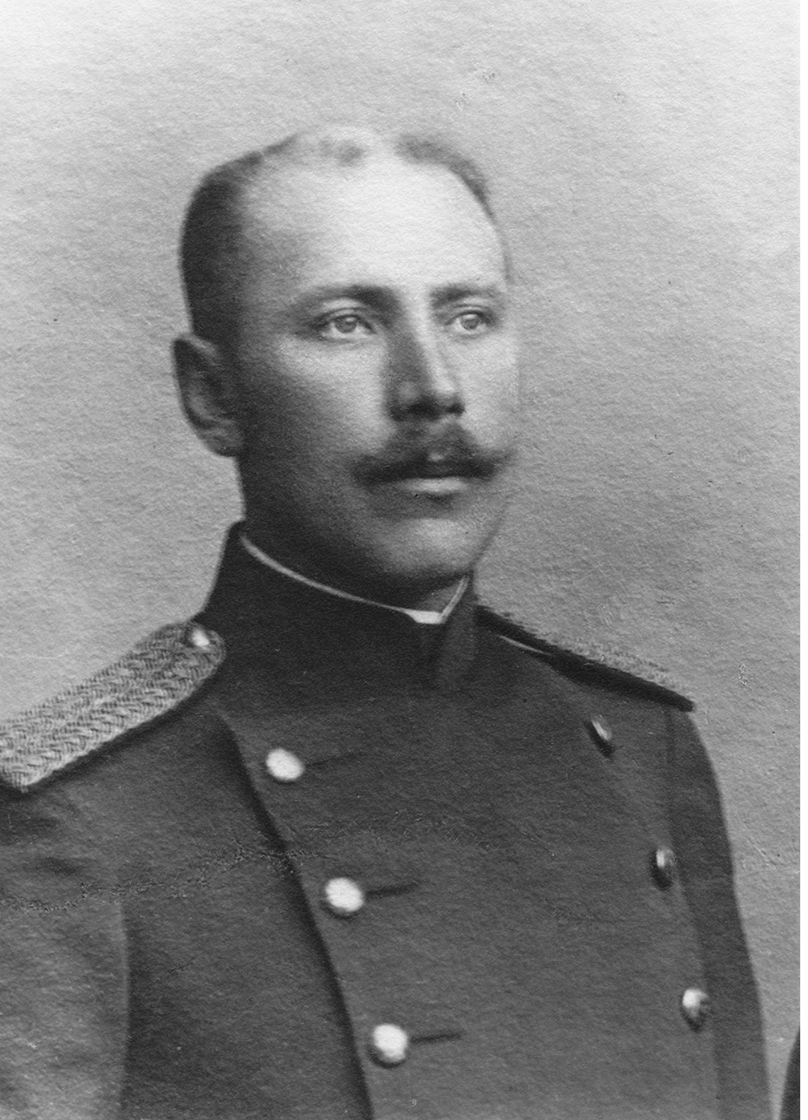 Alexander Nikiforow var kommissarie vid centralpolisen i Helsingfors 1893-1901 och 1905-1917.